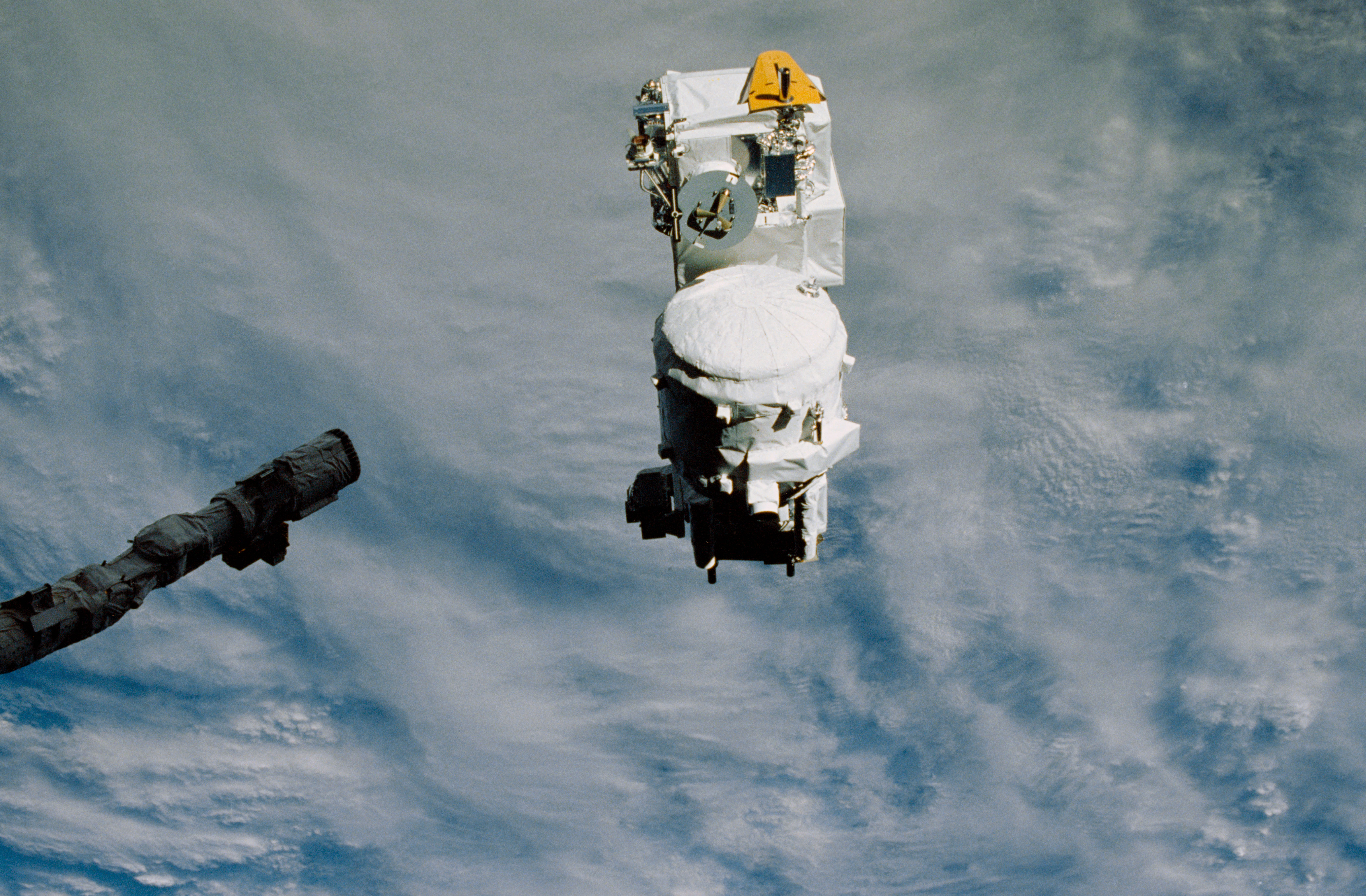 SPAS-II is released on STS-39. During STS-39 mission operations, the Shuttle Pallet Satellite II (SPAS-II) / Infrared Background Signature Survey (IBSS) spacecraft is released by Discovery's, Orbiter Vehicle (OV) 103's, remote manipulator system (RMS) end effector. SPAS-II/IBSS drifts away from the end effector over the cloud-covered surface of the Earth. Components visible on the spacecraft include the grapple fixture, the longeron trunnion, scuff plate, cryostat, and Arizona Imager/Spectrograph (AIS) (in shadows). SPAS-II is a Strategic Defense Initiative Organization (SDIO) payload.